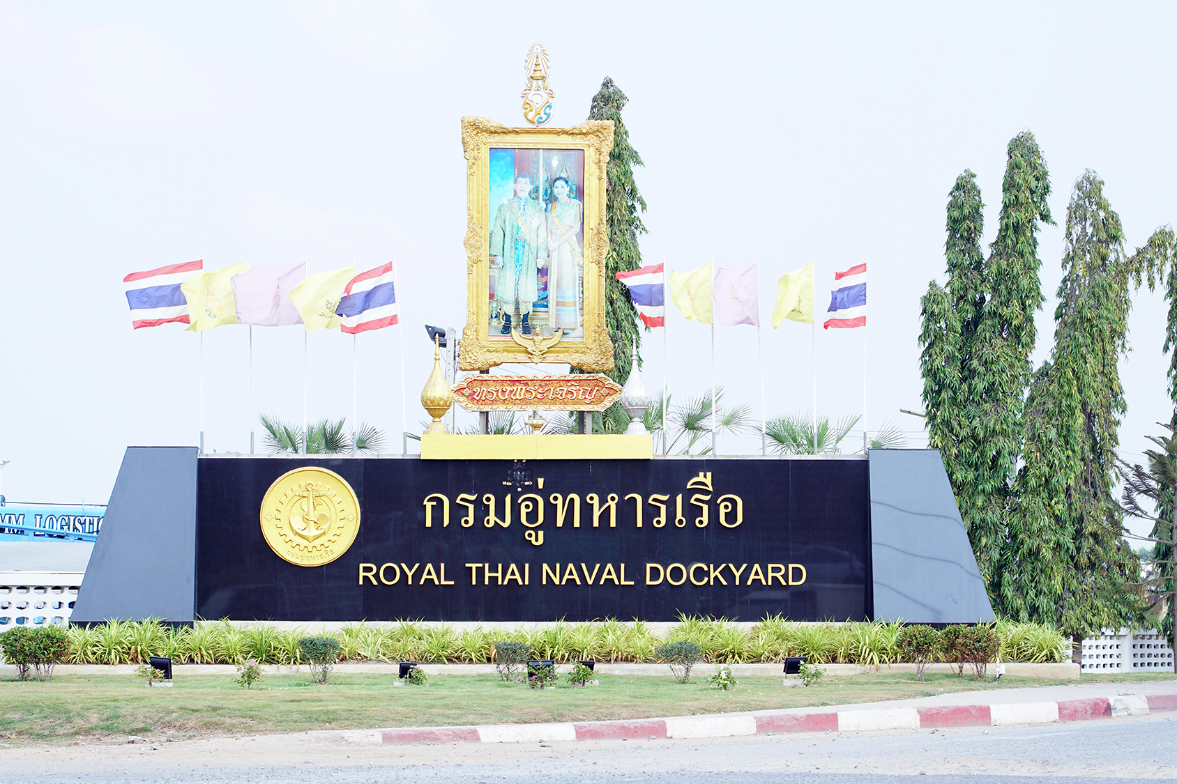 Royal Thai Naval Dockyard